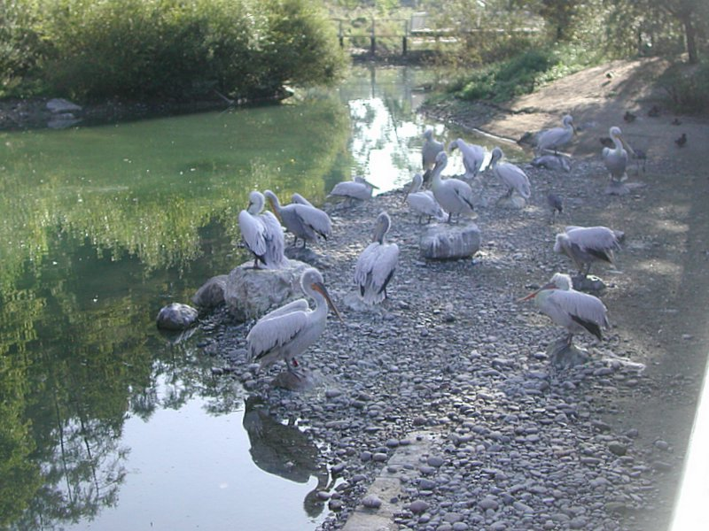 Krauskopfpelikane (Pelecanus crispus) Photo taken in the Tierpark Dählhölzli in Berne Source: photo uploaded by User:RicciSpeziari. Photographer: Riccardo Speziari